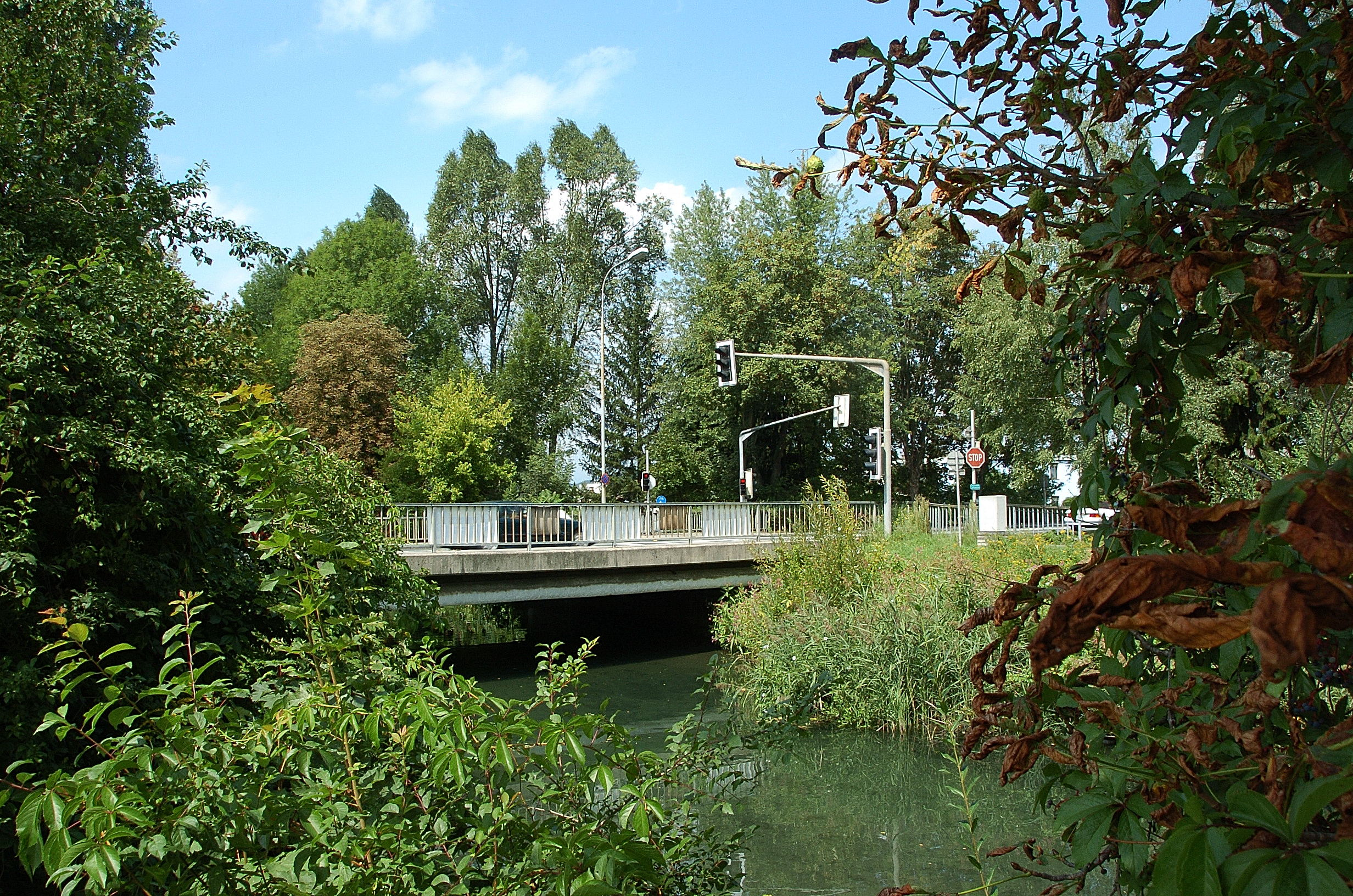 Road bridge of the Rosentaler Strasse across the Glanfurt river in the 11th district "Sankt Ruprecht" of the Carinthian capital Klagenfurt, Carinthia, Austria